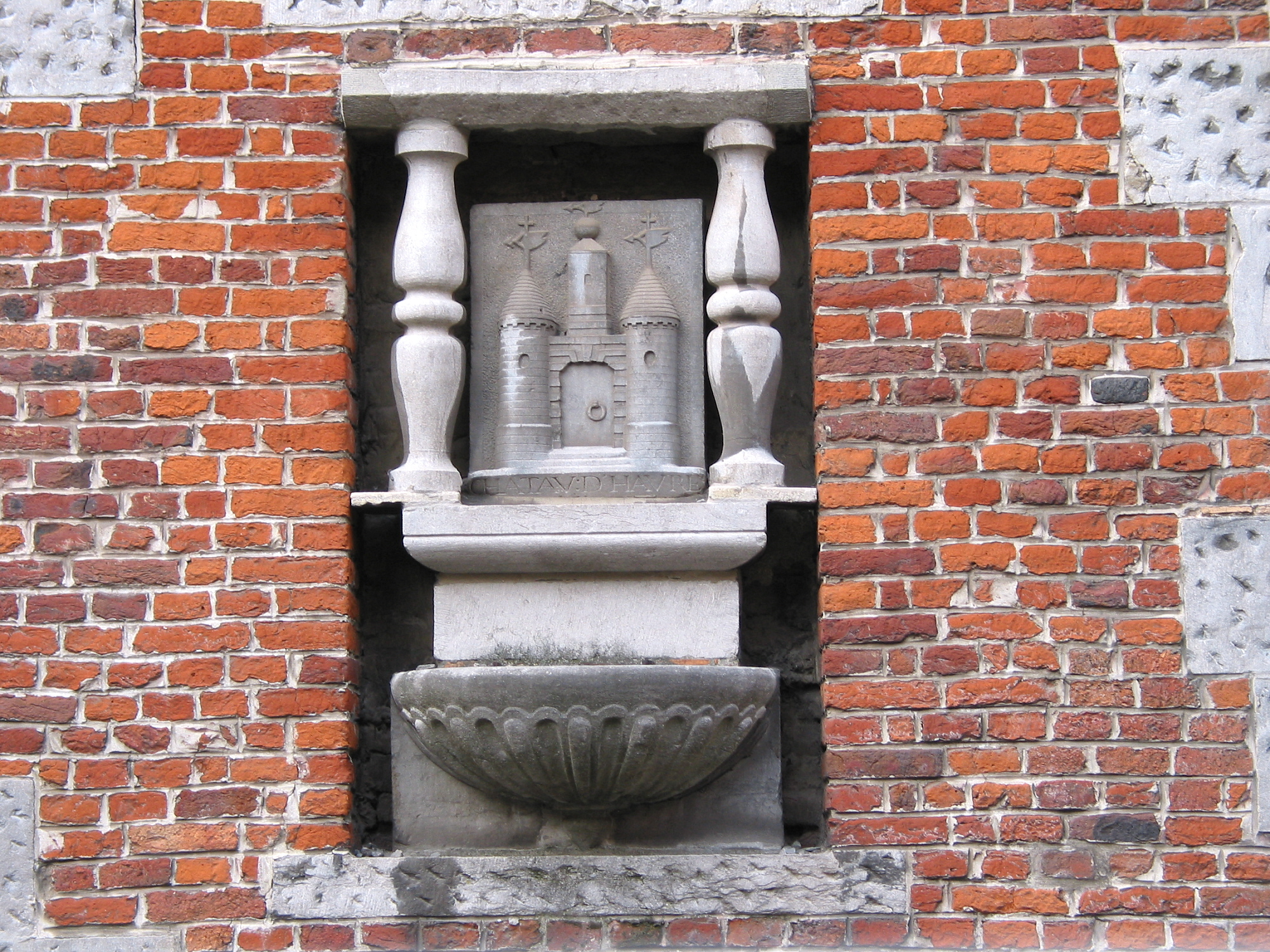 Mons (Belgium), rue Notre-Dame Débonnaire, 22 – carved stone of the Chanoine Puissant Museum veneer.